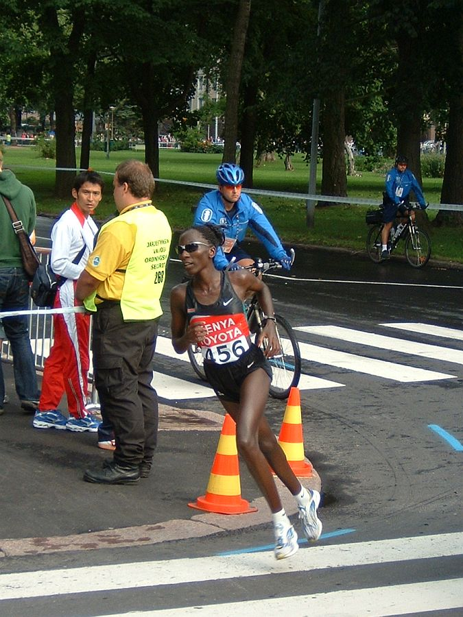 2005 World Championships in Athletics, Helsinki, Finland Marathon Women, 14. August 2005.